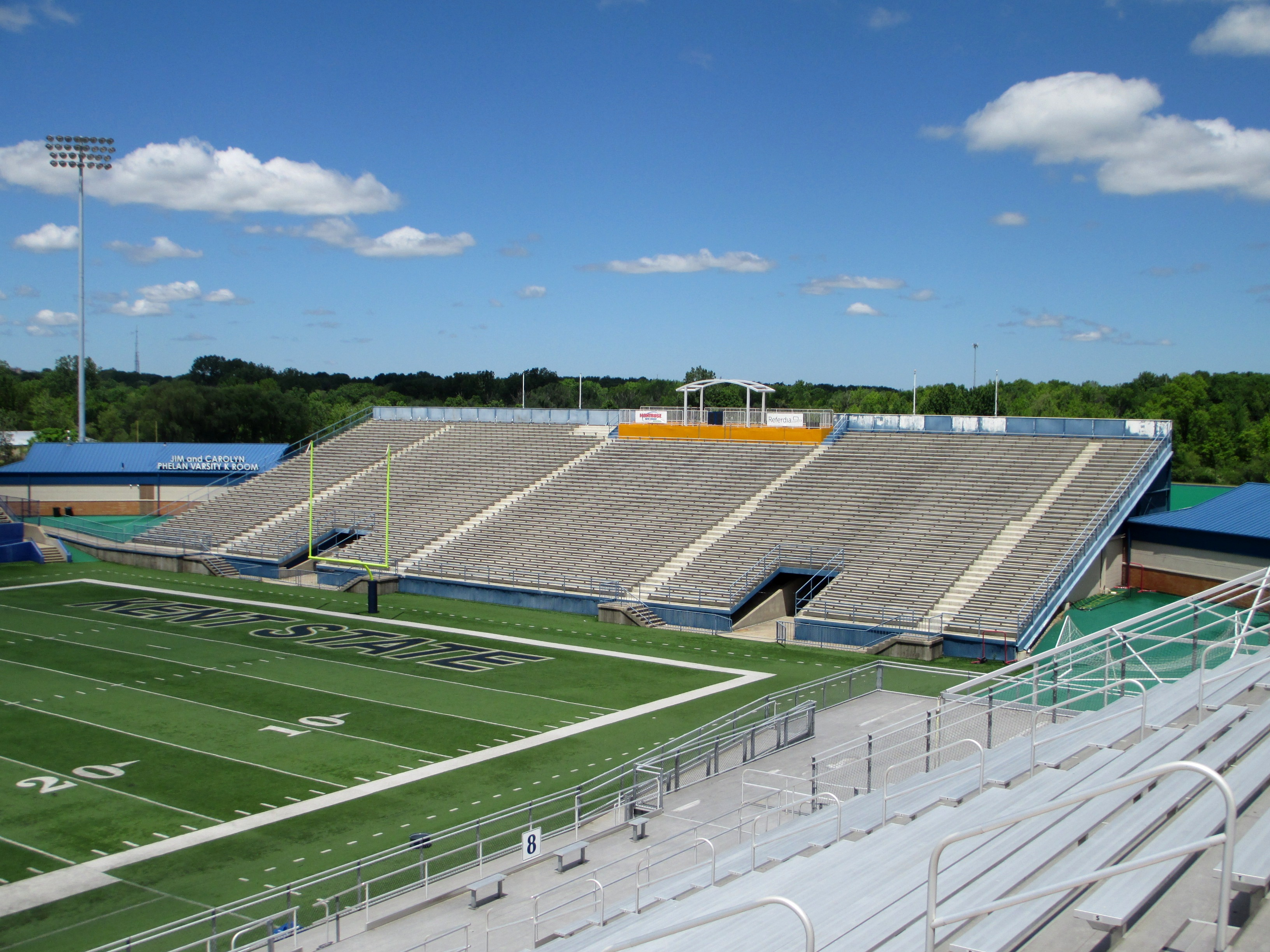 View of the north end zone stands at Dix Stadium in Kent, Ohio, United States, on the campus of Kent State University. This section of seating was the original section of Memorial Stadium and was built in 1950. It was moved to the current site in 1969. These stands were used in the film Draft Day as a stand-in for Ohio Stadium.